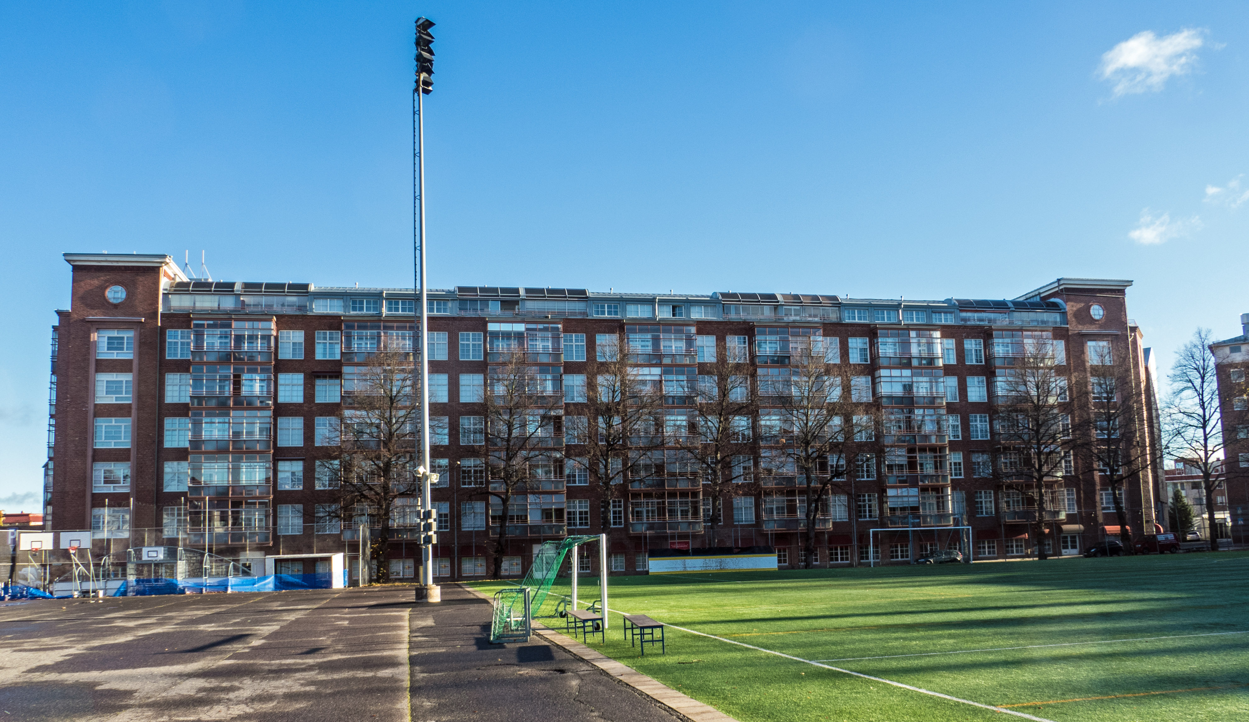 Verkahovi, private senior housing complex in Tervatori area, Turku, Finland. Originally, the only remaining building of Turun Verkatehdas wool mill that employed almost 2,000 people in early 1950s. Architect Runar Finnilä 1938, 1948-1950, renovation for residential use by Bo Wennerström of Casagrande & Haroma, 1993–1994.